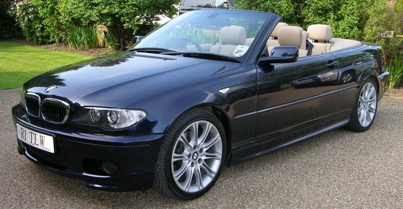 This car is for sale. Please contact us at or visit for more information.